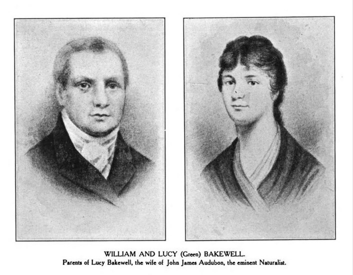 Photograph: Portraits of William Bakewell (1759-1821) and Lucy Green Bakewell (1765-1804).